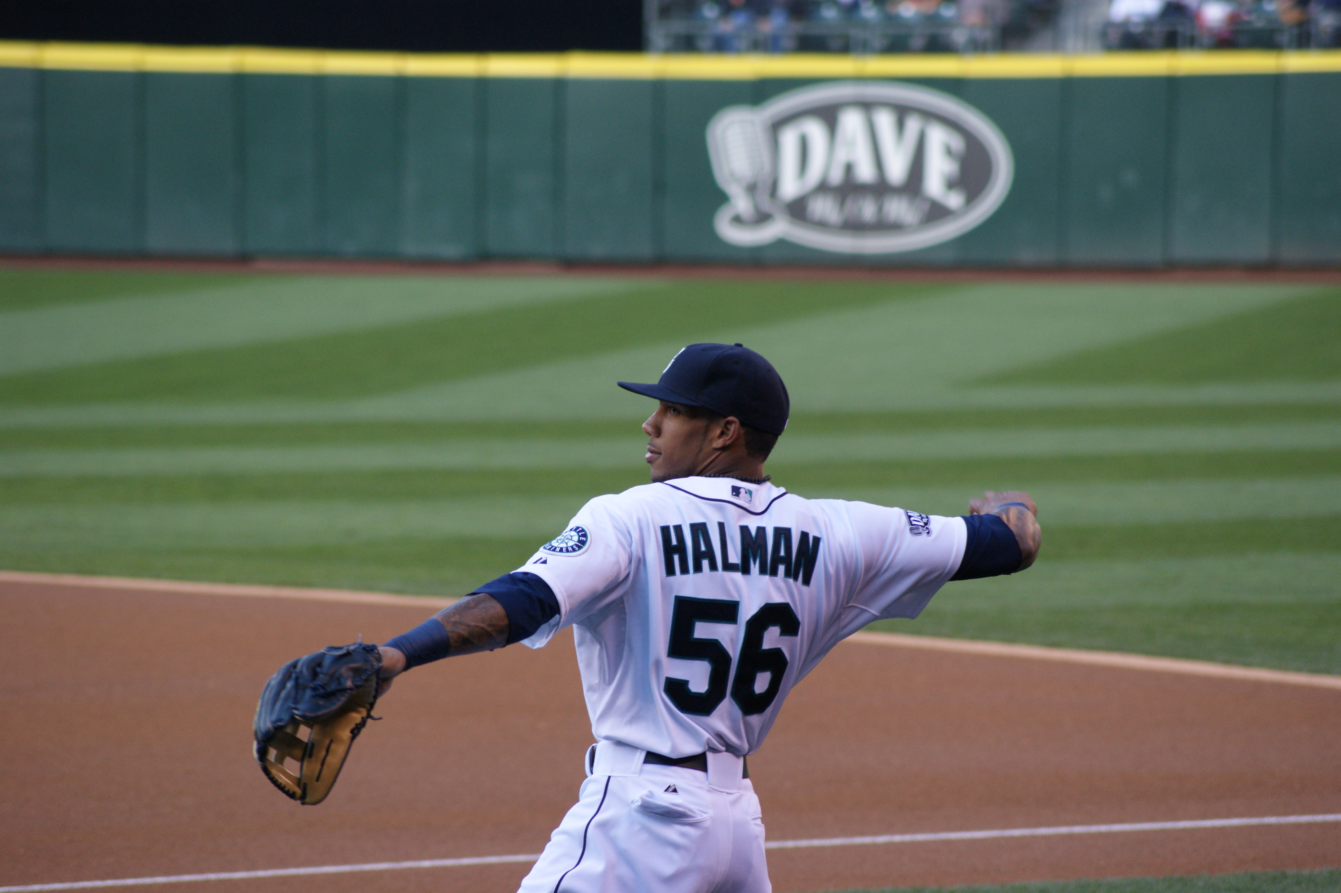 Greg Halman of the Seattle Mariners on June 15th, 2011 at Safeco Field.